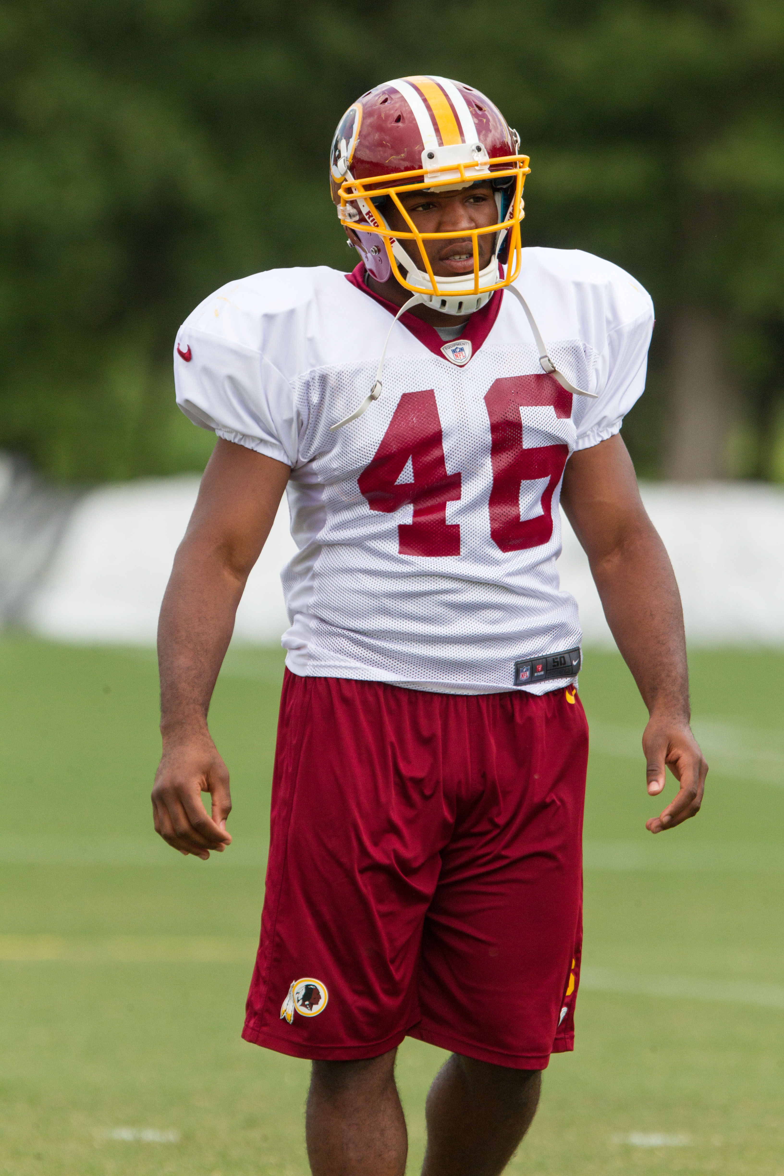 Alfred Morris at Washington Redskins Training Camp July 31, 2012